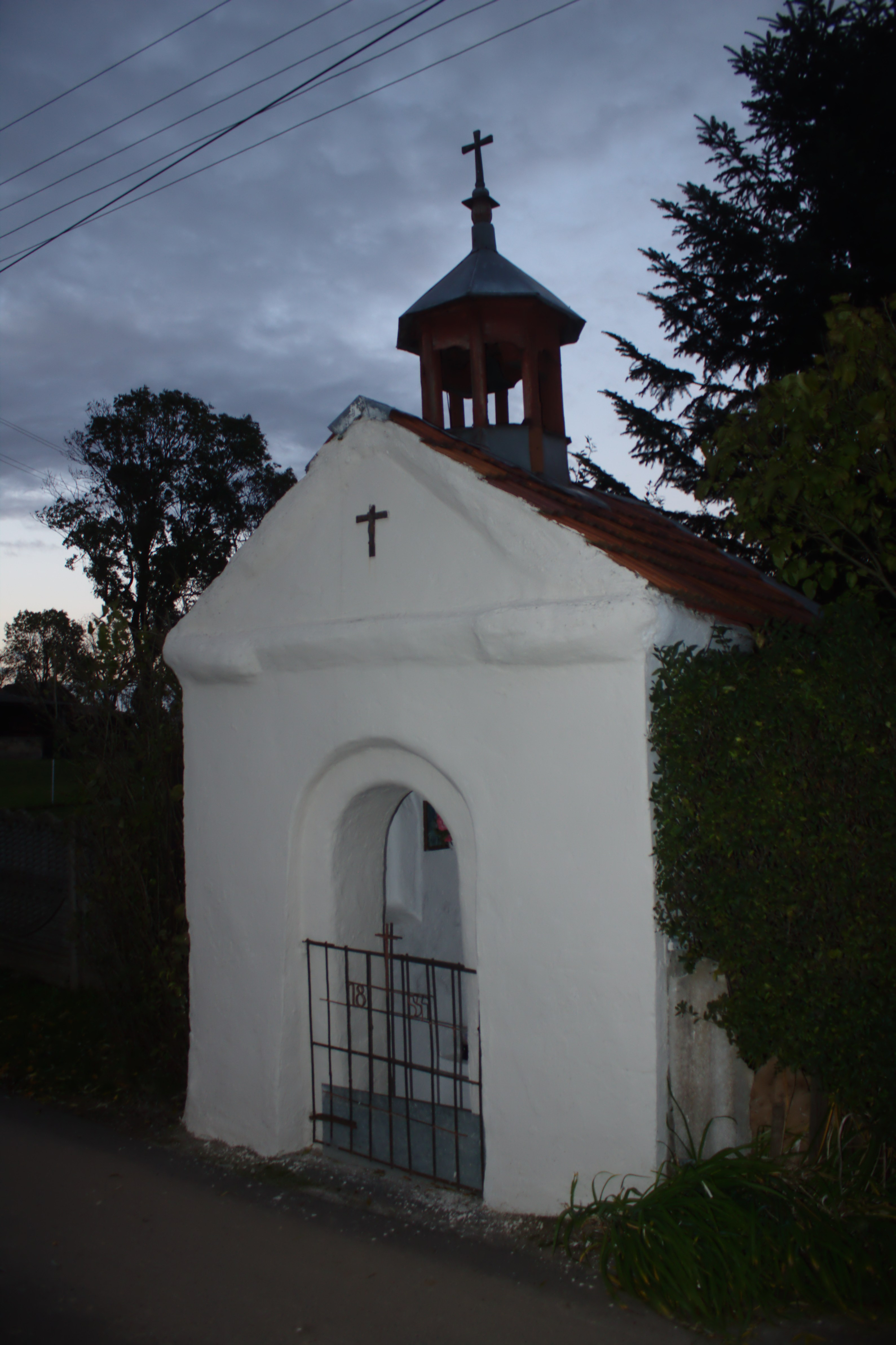 A chapel in the village of Sławienko, Poland